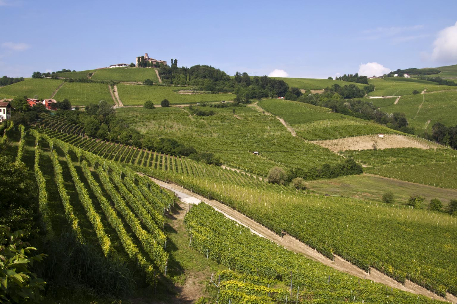 Hilly area and its vineyards (Langhe) in the province of Cuneo in Piedmont – Italy.